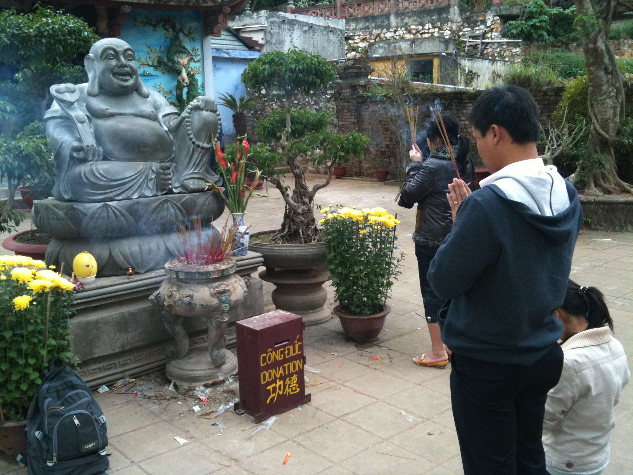 Visitors to Tam Thai Pagoda in the Marble Mountains perform worship of Di Lặc, the Maitreya Buddha (Buddha of the Future).